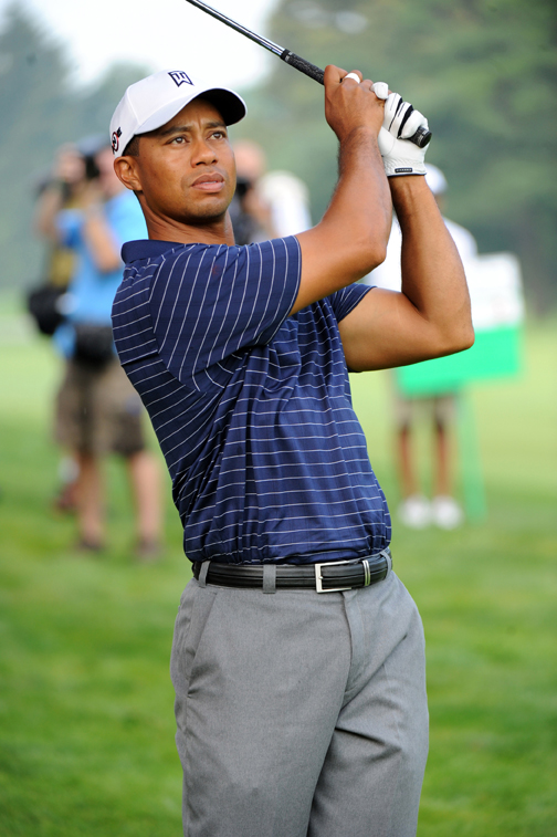 PHOTO CAPTION: AT&T National tournament host Tiger Woods, the top-ranked golfer in the world with 14 major victories on his resume, competes in the third annual Earl Woods Memorial Pro-Am on July 1 at Congressional Country Club. He dedicates the tournament to the men and women of the U.S. military. (Photo by Tim Hipps, FMWRC Public Affairs)